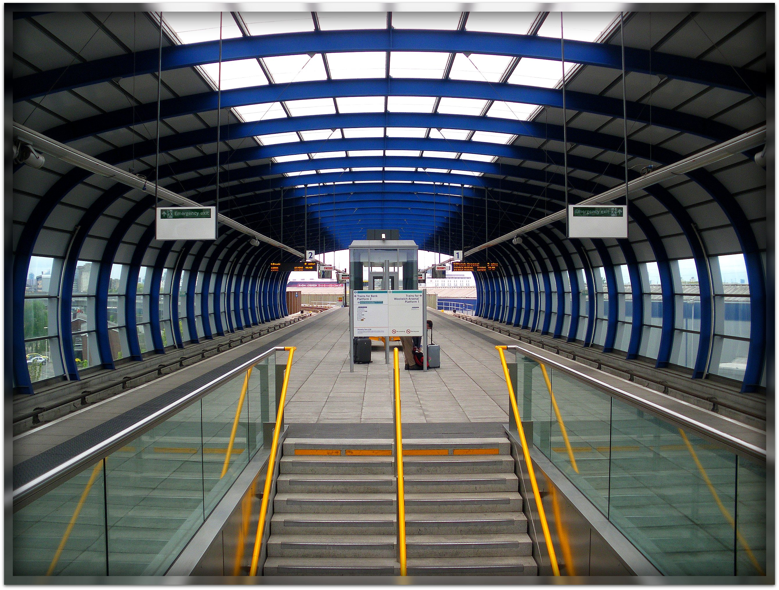 Docklands Light Railway (DLR) Overview Type light metro and light rail/rapid transit Locale Greater London Stations 40 Services Bank-Lewisham Bank-Woolwich Arsenal Stratford-Lewisham Tower Gateway-Beckton Operation Opened 31 August 1987 Owner DLR Ltd; part of Transport for London (TfL) Operator(s) Serco Docklands Ltd Depot(s) Poplar Beckton Rolling stock DLR rolling stock Technical Line length 34 km (21 mi) Track gauge 1,435 mm (4 ft 8+1⁄2 in) Standard gauge Electrification third rail, 750 V DC Operating speed 80 km/h (50 mph) [show] [v • d • e] Docklands Light Railway Legend All stations have step-free access The Docklands Light Railway is an automated light metro or light rail system opened on 31 August 1987 to serve the redeveloped Docklands area of East London, England.[1] It covers several areas of London, reaching north to Stratford, south to Lewisham, west to Tower Gateway and Bank in the City of London financial district, and east to Beckton, London City Airport and Woolwich Arsenal. The DLR is operated under a concession awarded by Transport for London to Serco Docklands Ltd, a joint organisation of the former DLR management team and Serco Group. The system is owned by DLR Limited, part of the London Rail division of Transport for London (TfL) which also manages London Overground and London Tramlink (but not London Underground, which is a separate division of TfL). In 2006 the DLR carried over 60 million passengers[2]. It has been extended several times, with work and proposals continuously ongoing. Although it has some similarities to other public transport systems in London such as the London Underground, DLR trains are not compatible with either the Underground network, Crossrail or the wider railway network in Britain. BY WIKIPEDIA! ENJOY! LONDON AND THE DLR PLUS YOU AND US! ENJOY!:)